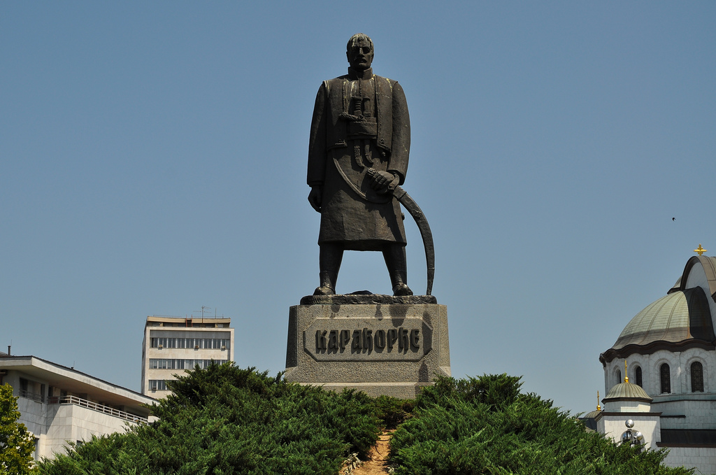 Statue of karadjordje in front of the Sveti Sava Cathedral. karadjordje was a Serb leader in the First Serbian Uprising against the Ottoman Empire. Because of his commoner background he was nicknamed "Black George", kara meaning black in Turkish.